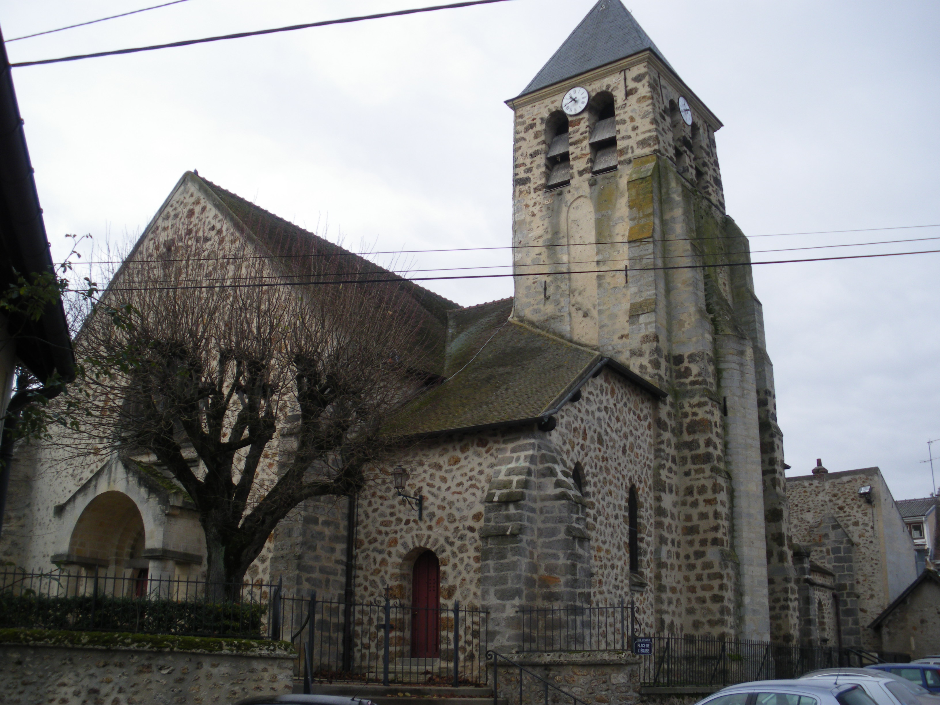 Church in Saclay, Essonne, France.